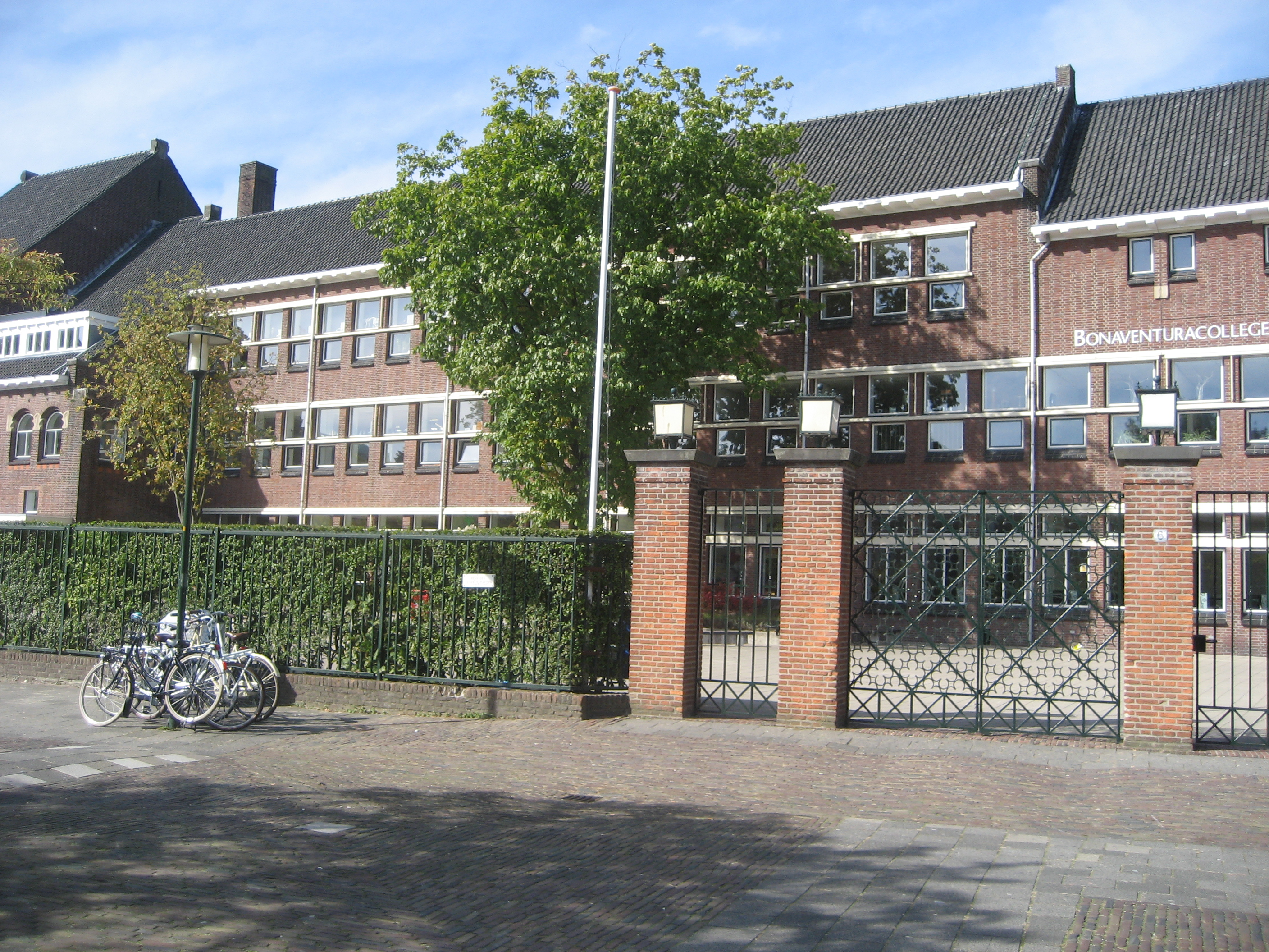 Bonaventuracollege, Mariënpoelstraat 6, 2334 CZ Leiden, The Netherlands.